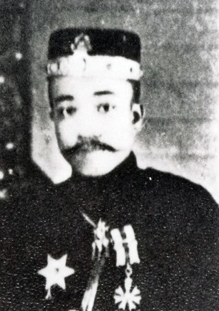 Muhammad Jamalul Alam II